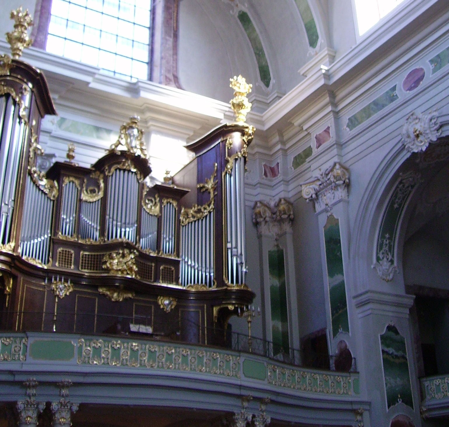 inside of the Jesuit's church in Mannheim, Germany